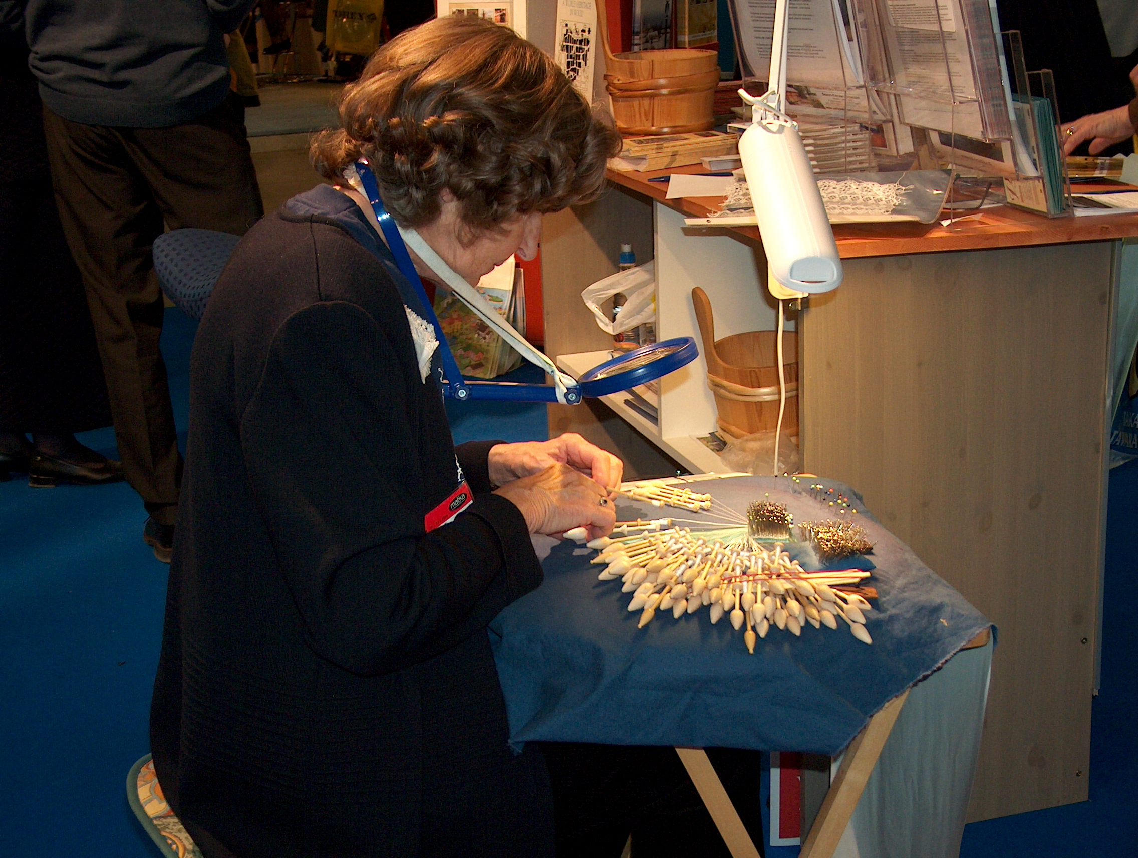 Finnish bobbin lacer working at Helsinki Travel Fair 2005